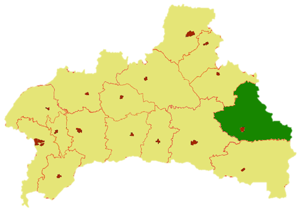 Luninec raion in Belarus